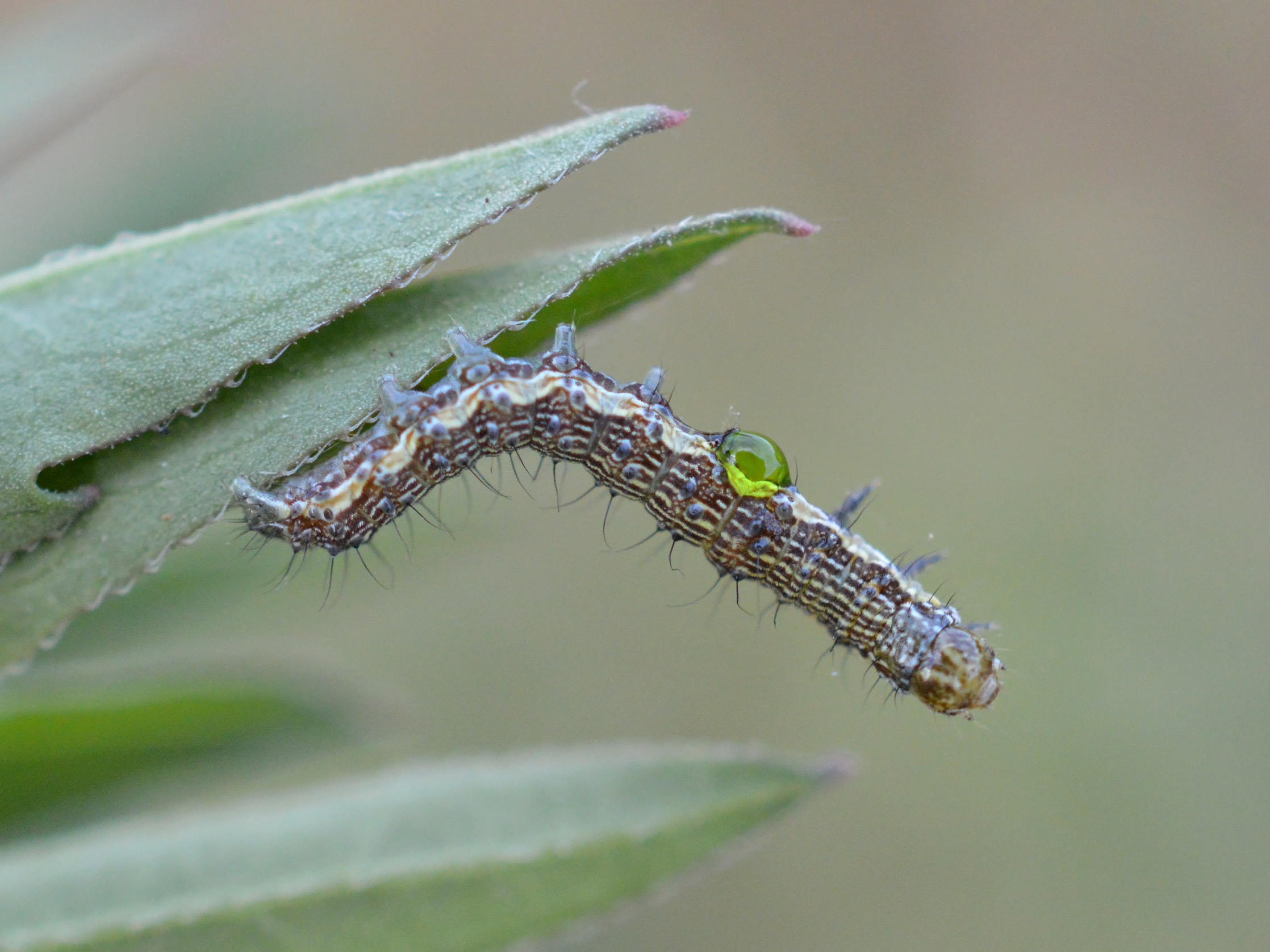 The parasitoid ichneumonid Therion circumflexum had just deposited an egg in a Helicoverpa armigera caterpillar. Hemolymph was leaking from the caterpillar. The plant is Erigeron annuus which hosted many such caterpillars and one ichneumonid cocoon (probably of the same species). Near Botevgrad, Bulgaria.